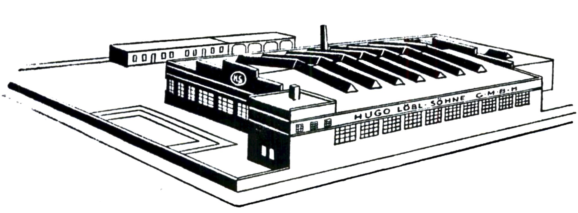 Clipping of an ad of the company Hugo Löbl Söhne in Bamberg, Upper Franconia, Bavaria, Germany. The ad was placed after 1928 and before 1938. The large building complex still exists at the corner to Hohmannstrasse.